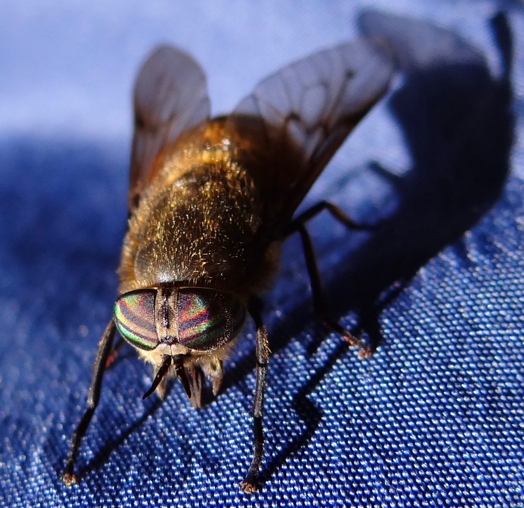 Gadfly on fabric in Rohkunborri National Park, Troms, Norway.